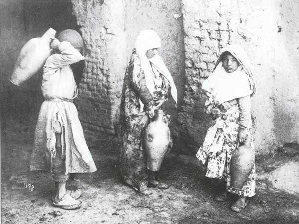 Antoin sevruguin's historical photographs